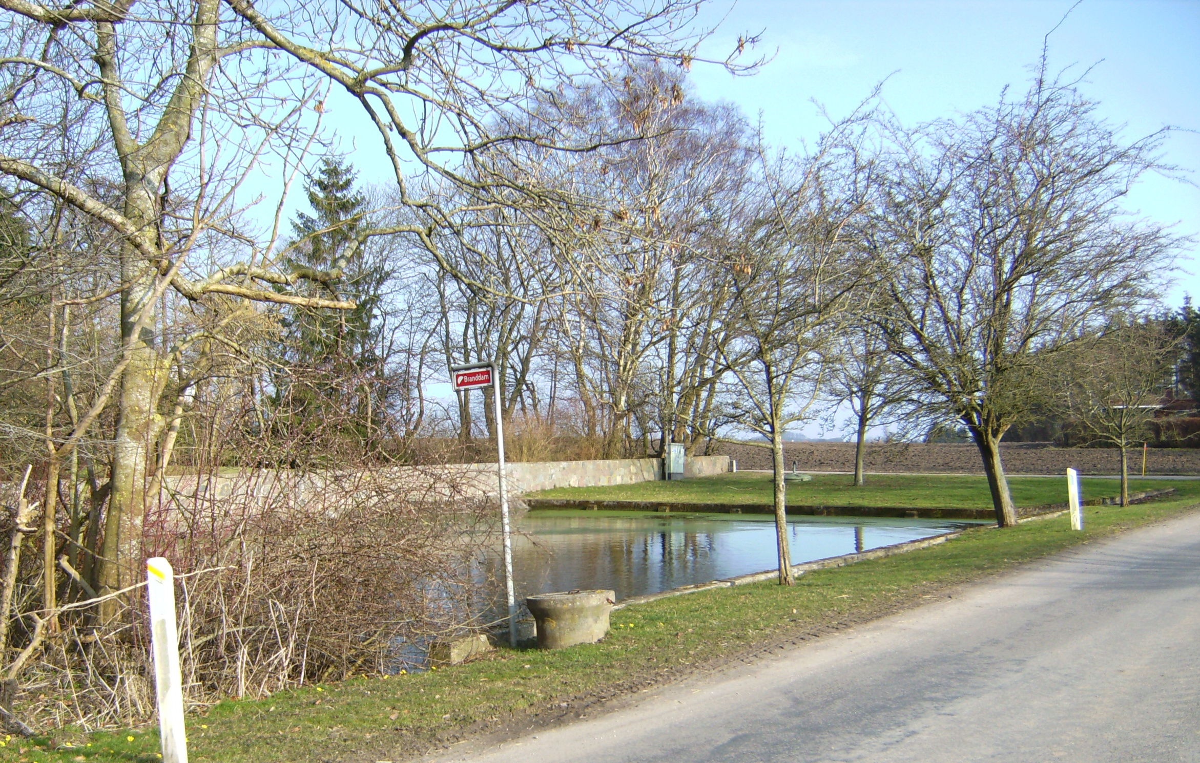 Karleby is a small village in Denmark